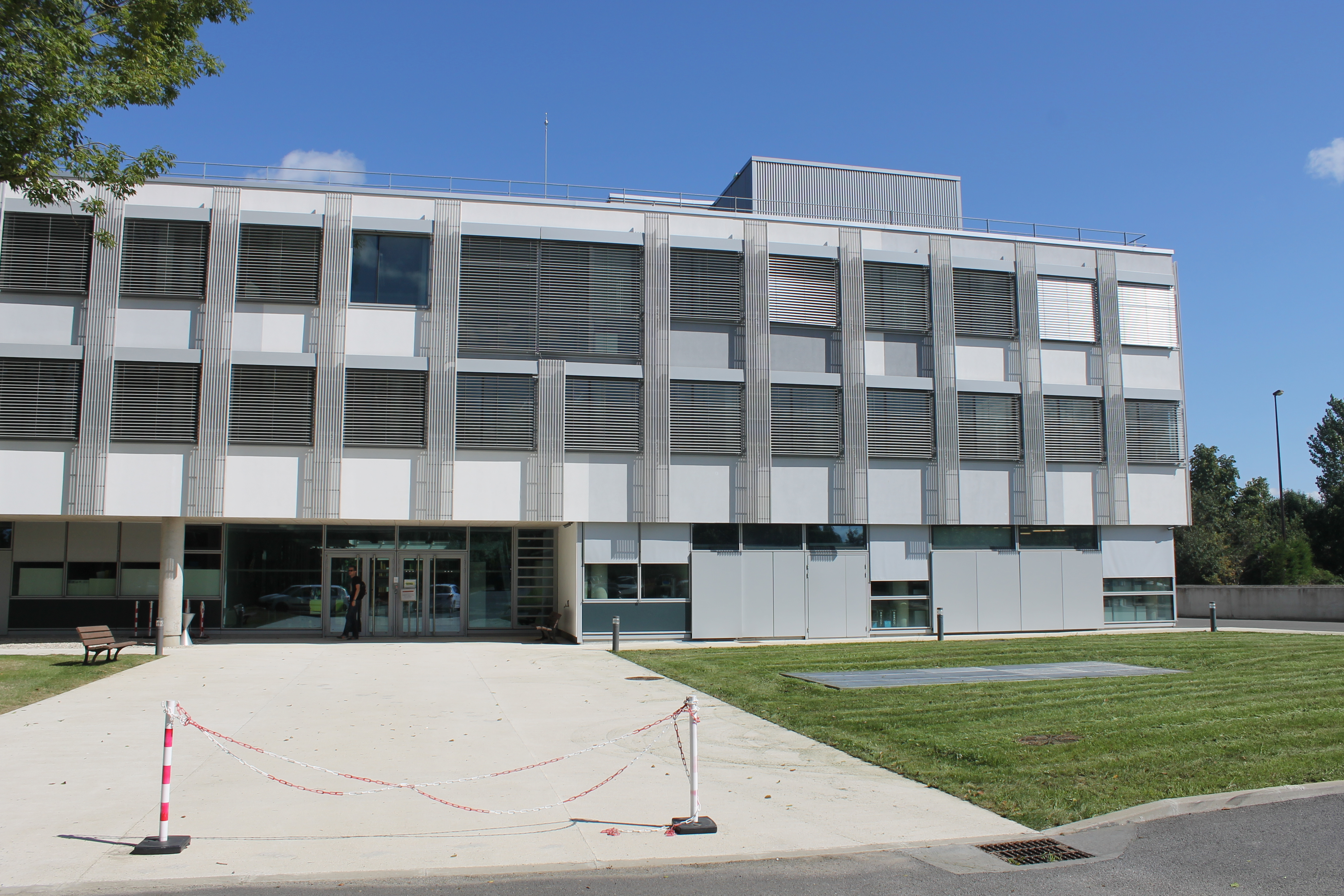 The building of INRIA in Paris-Saclay, France, near the Ecole polytechnique.